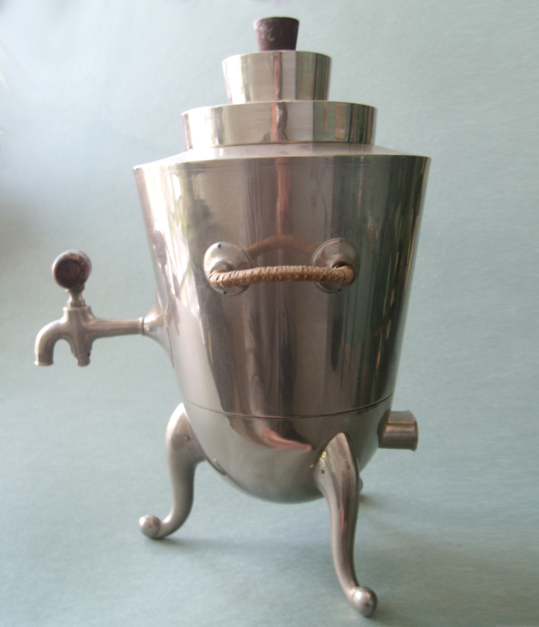 AEG coffee machine. Often attributed to Peter Behrens. Item is part of my personal design collection